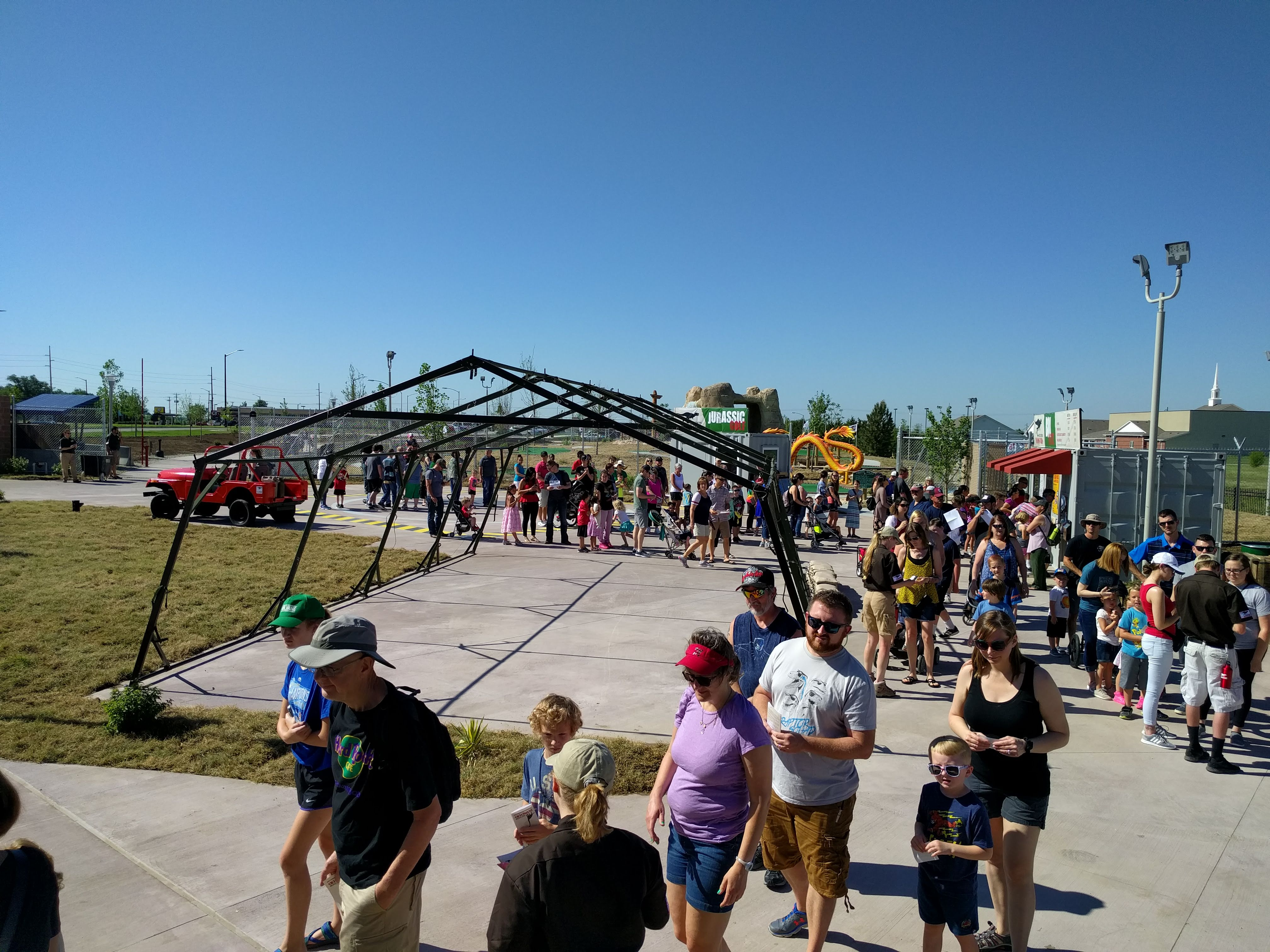 Crowds lined up for the grand opening on the first day